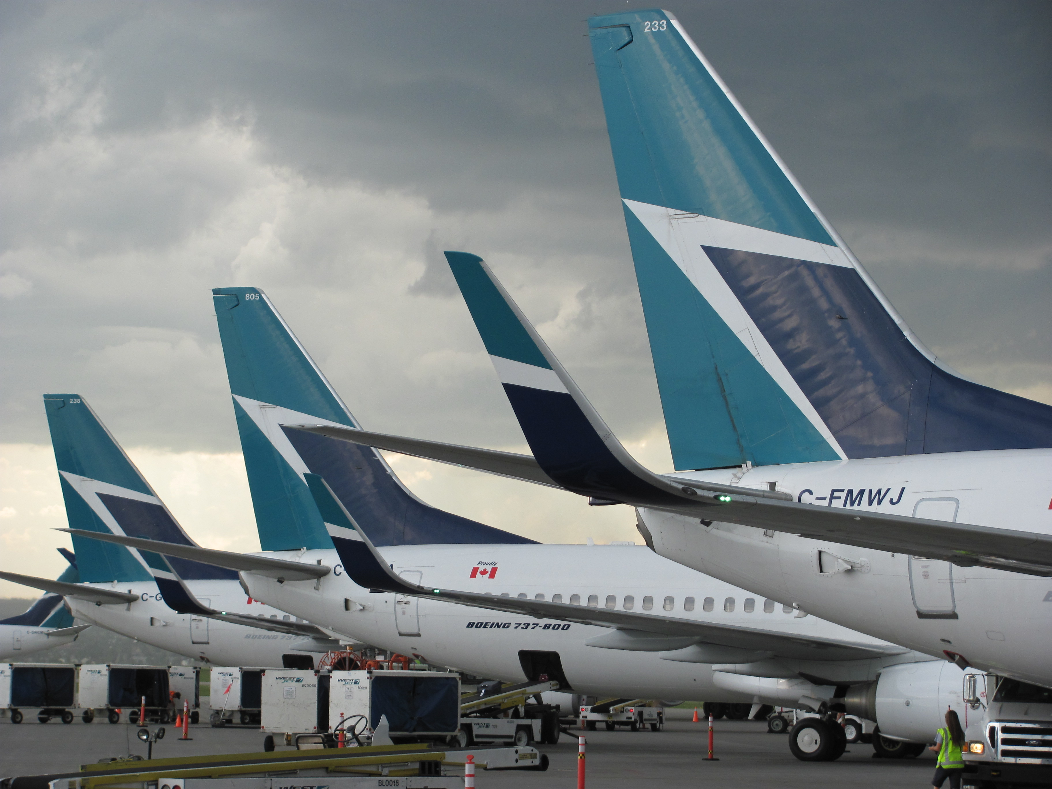 The evening rush hour at YYC